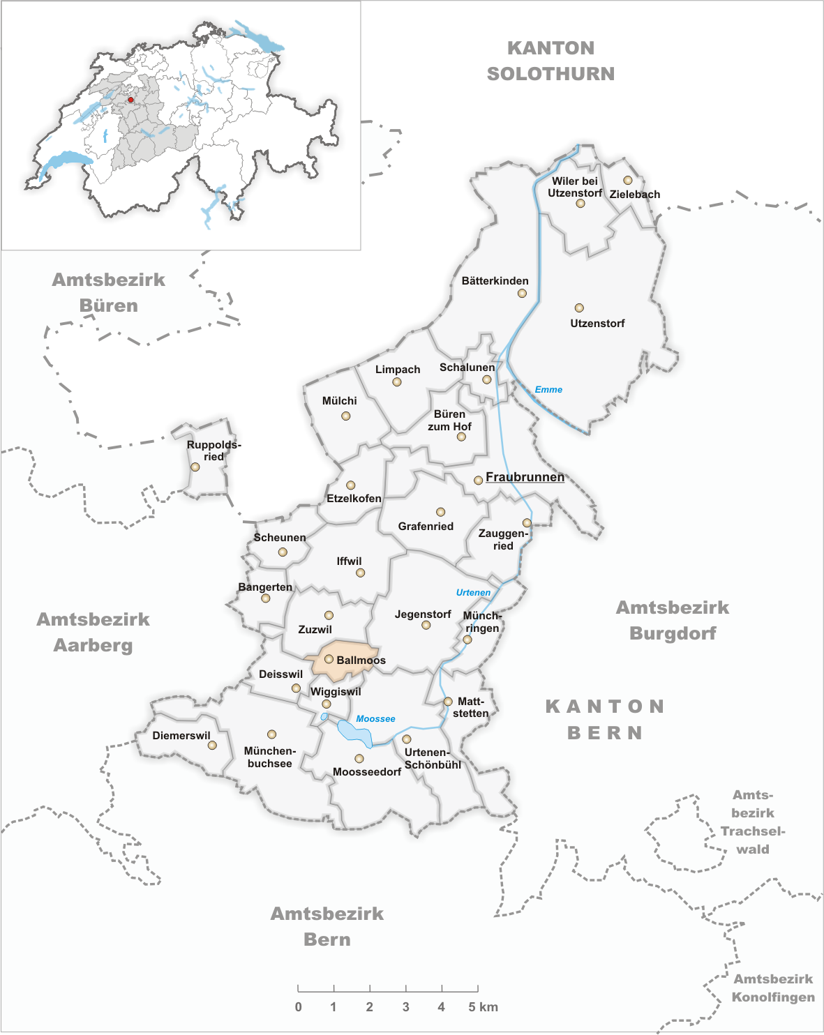 Municipality Ballmoos